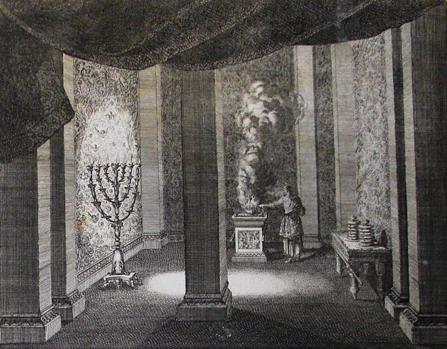 A print from the Phillip Medhurst Collection of Bible illustrations in the possession of Revd. Philip De Vere at St. George’s Court, Kidderminster, England.